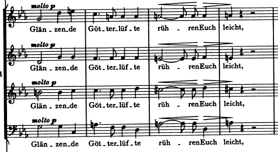 J. Brahms, Schicksalslied, Opus 54. Choral Excerpt 2.